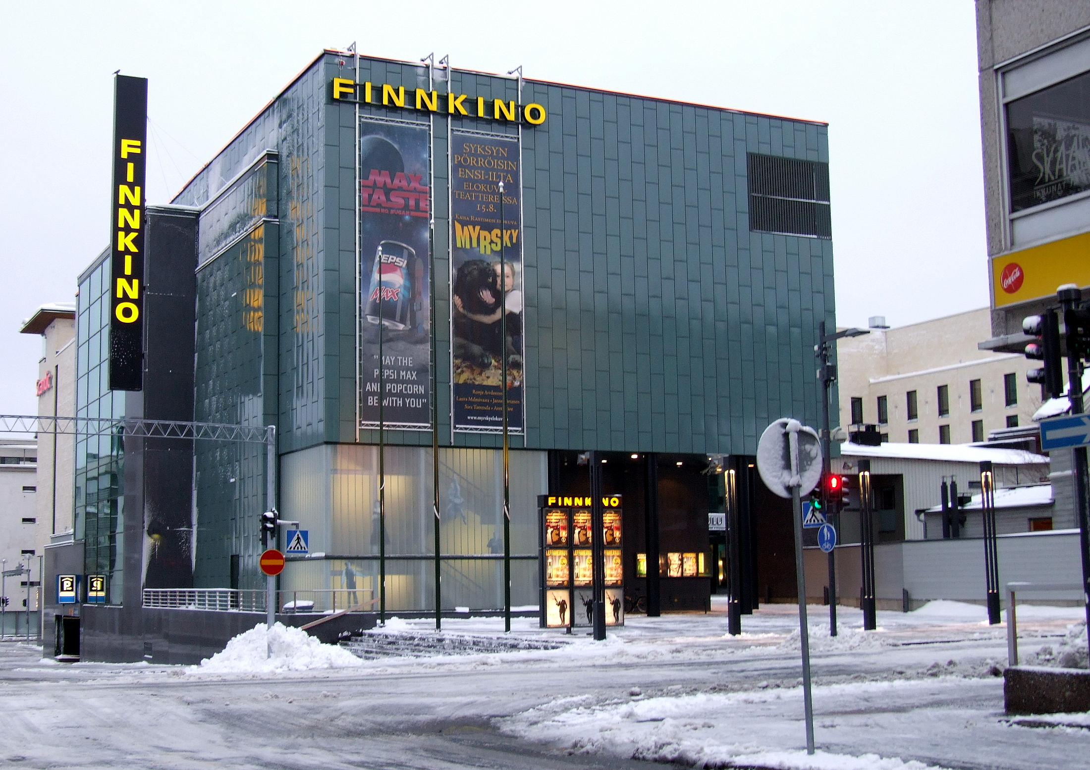 Finnkino Plaza is a multiplex movie theater with eight screens in Oulu, Finland. The cinema was opened in November, 2006. The building was designed by architects Juha Paldanius and Jorma Teppo.